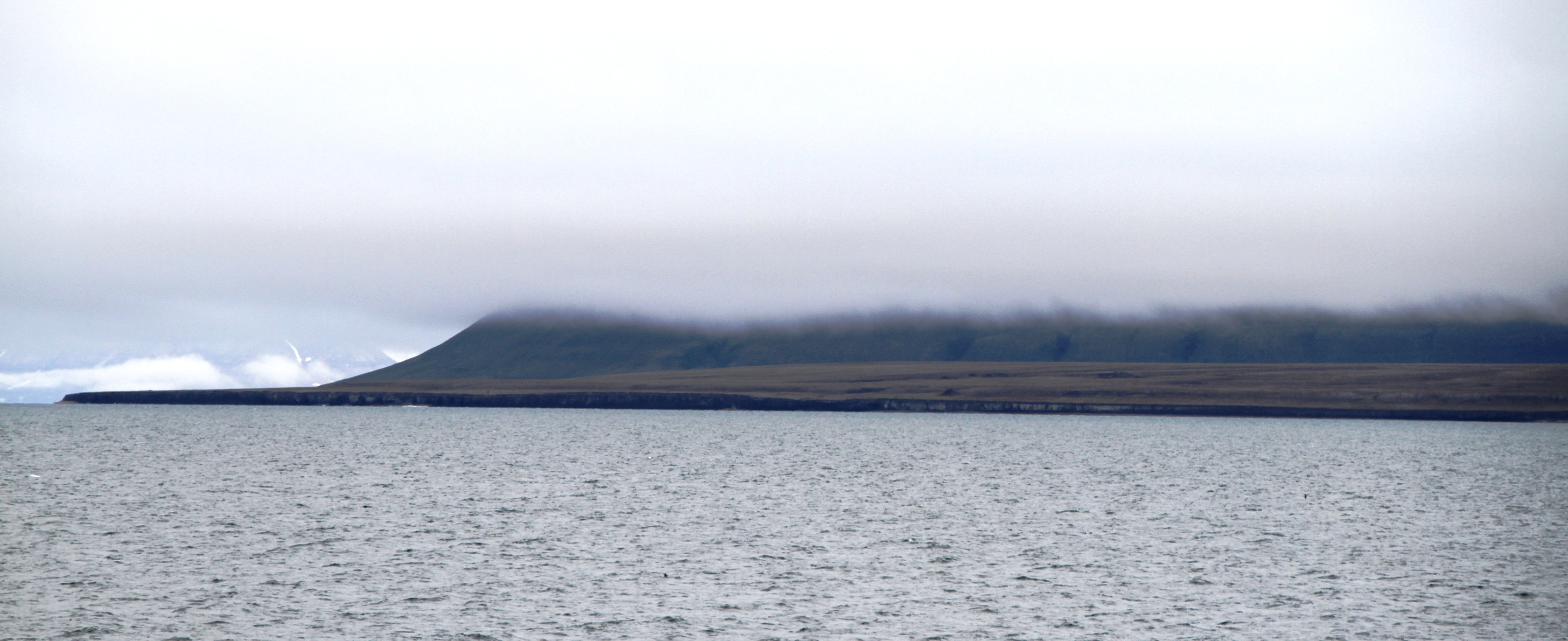 Photo from the eastern coast of Dickson Land - western Billefjorden, in the bottom of Isfjorden fiord - central Spitsbergen.